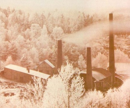 carbonization and acetic acid concentration plant, Perstorp